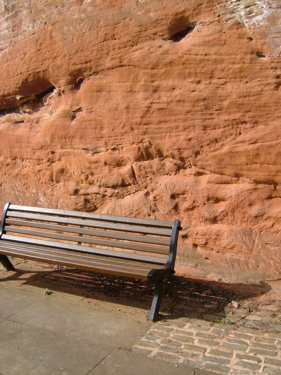 This Collyhurst Sandstone forms part of the river cliff ofRiver Medlock at Castlefield, Manchester. This is exposed alongside the Grocers' Warehouse. - Google Maps - Google Earth